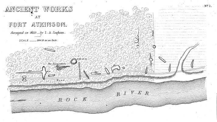 Increase Lapham's sketch of the mound group around the Panther Intaglio of Fort Atkinson, Wisconsin, as they stood when he surveyed them in 1850.